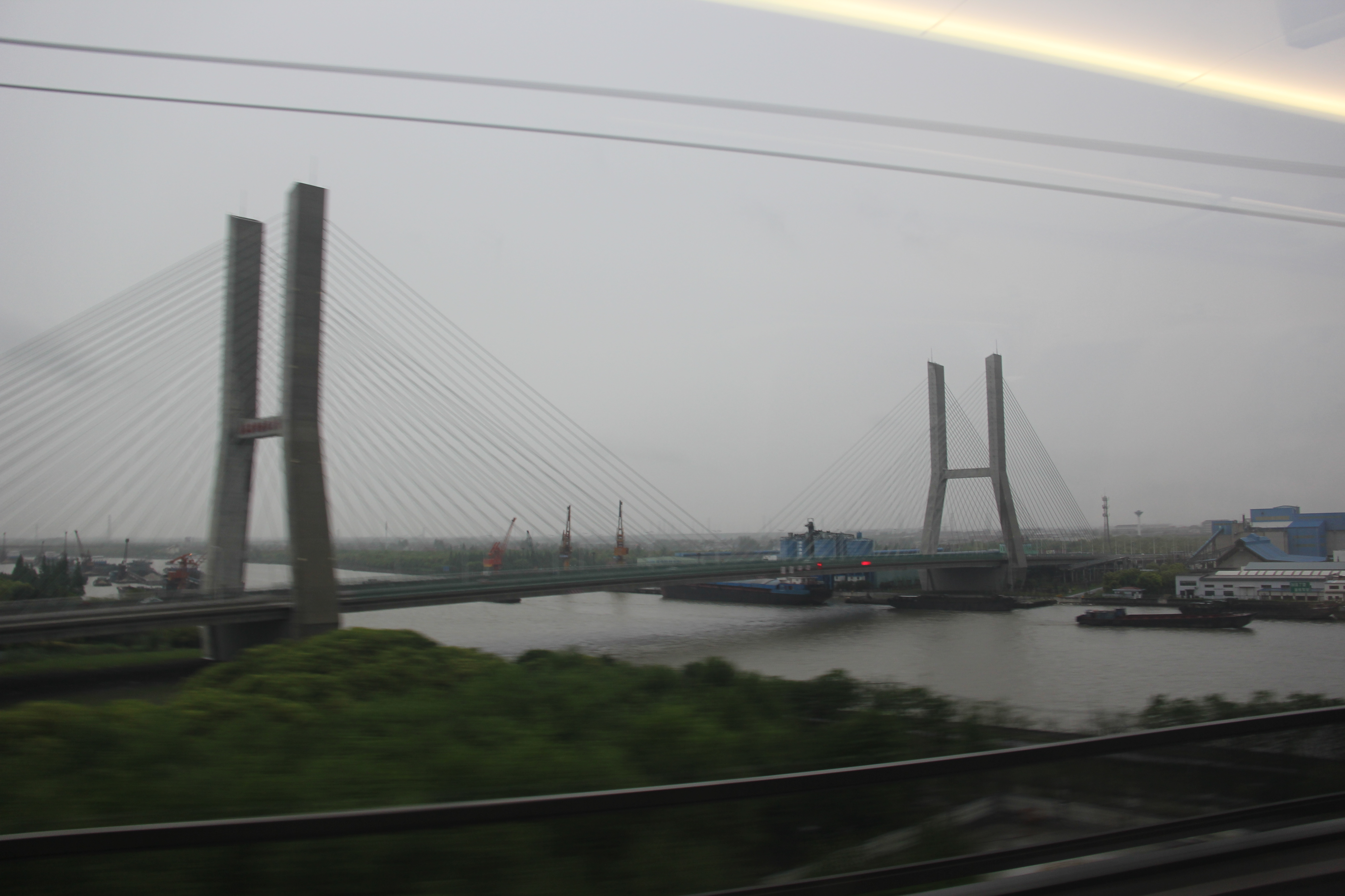 201605 Hengliaojing Bridge